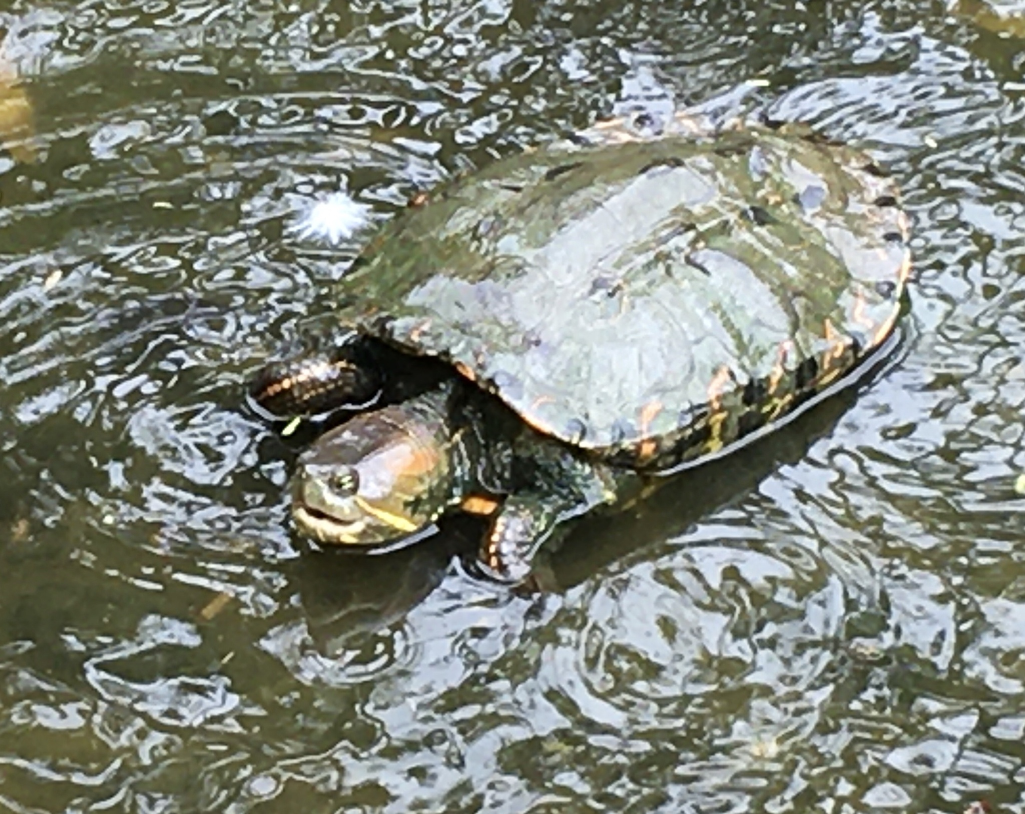 Hicotea (Trachemys callirostris). Species of turtle.